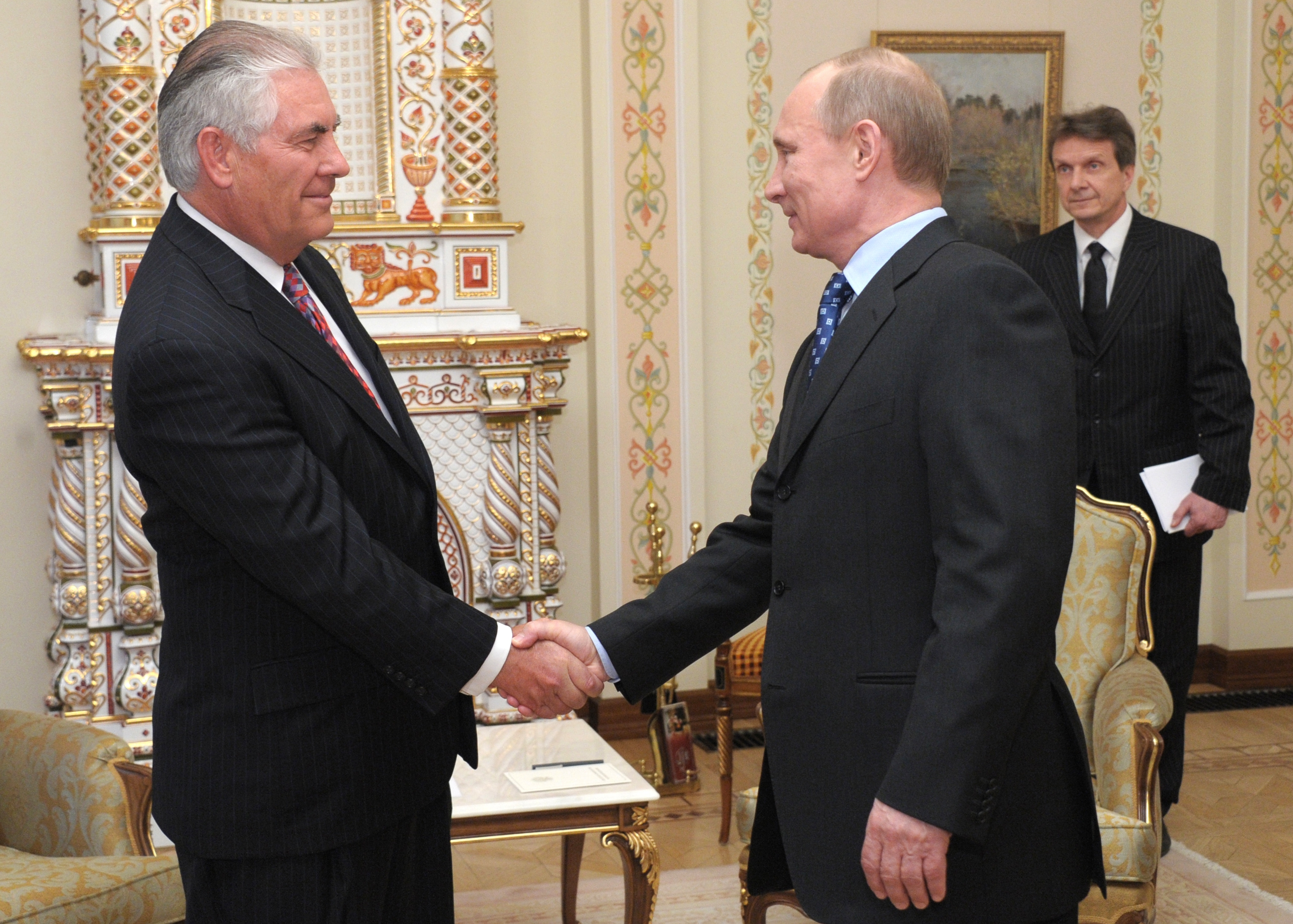 Prime Minister Vladimir Putin meets with Chairman and CEO of ExxonMobil Corporation Rex W. Tillerson